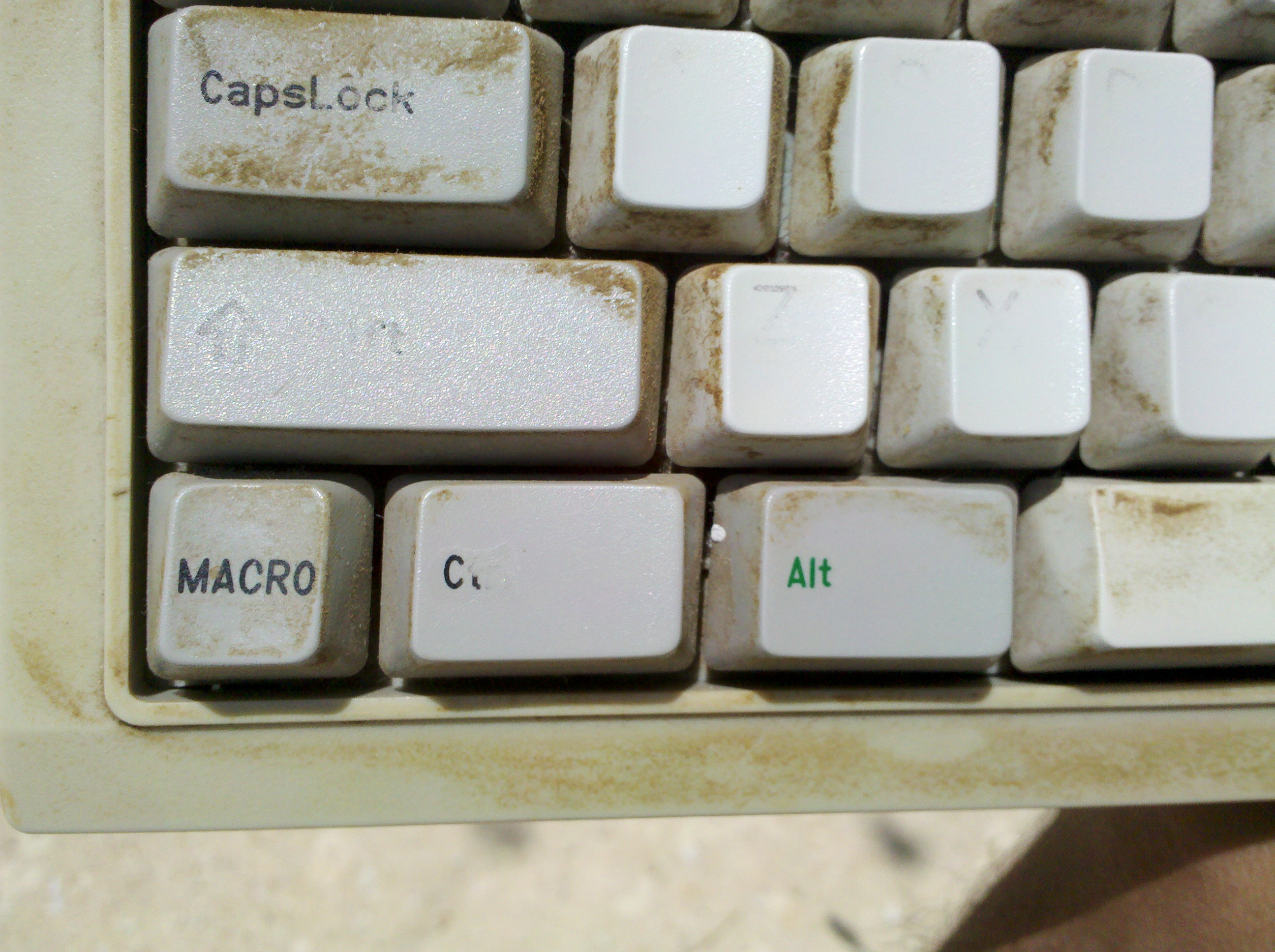 Macro key from a BTC-53 series keyboard. Windows XP recognizes a pulsation on this key as an apostrophe (« ' »).